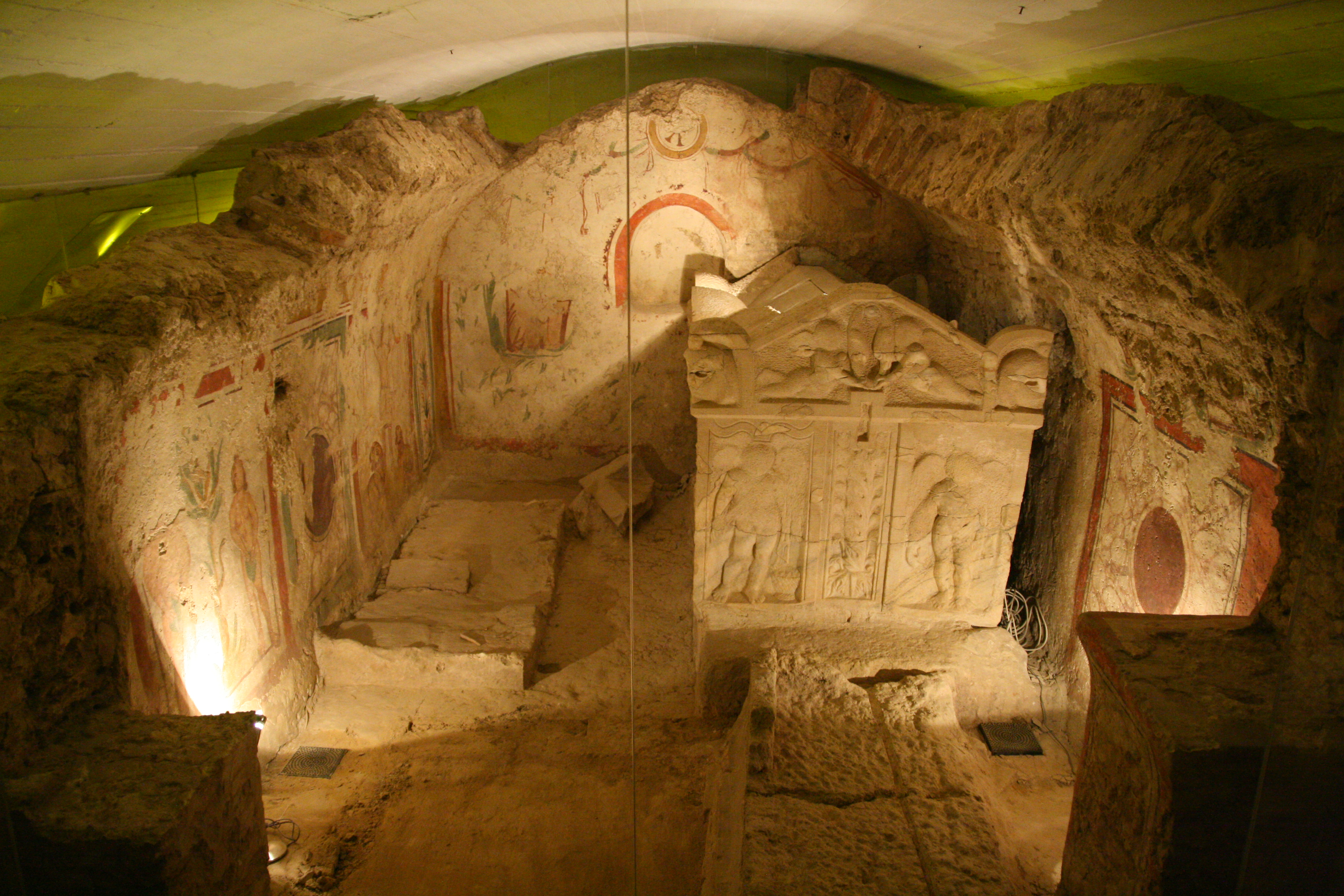 Early Christian Mausoleum in Pécs (Hungary).